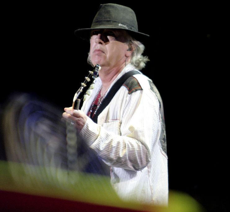 Aerosmith - Brad Whitford